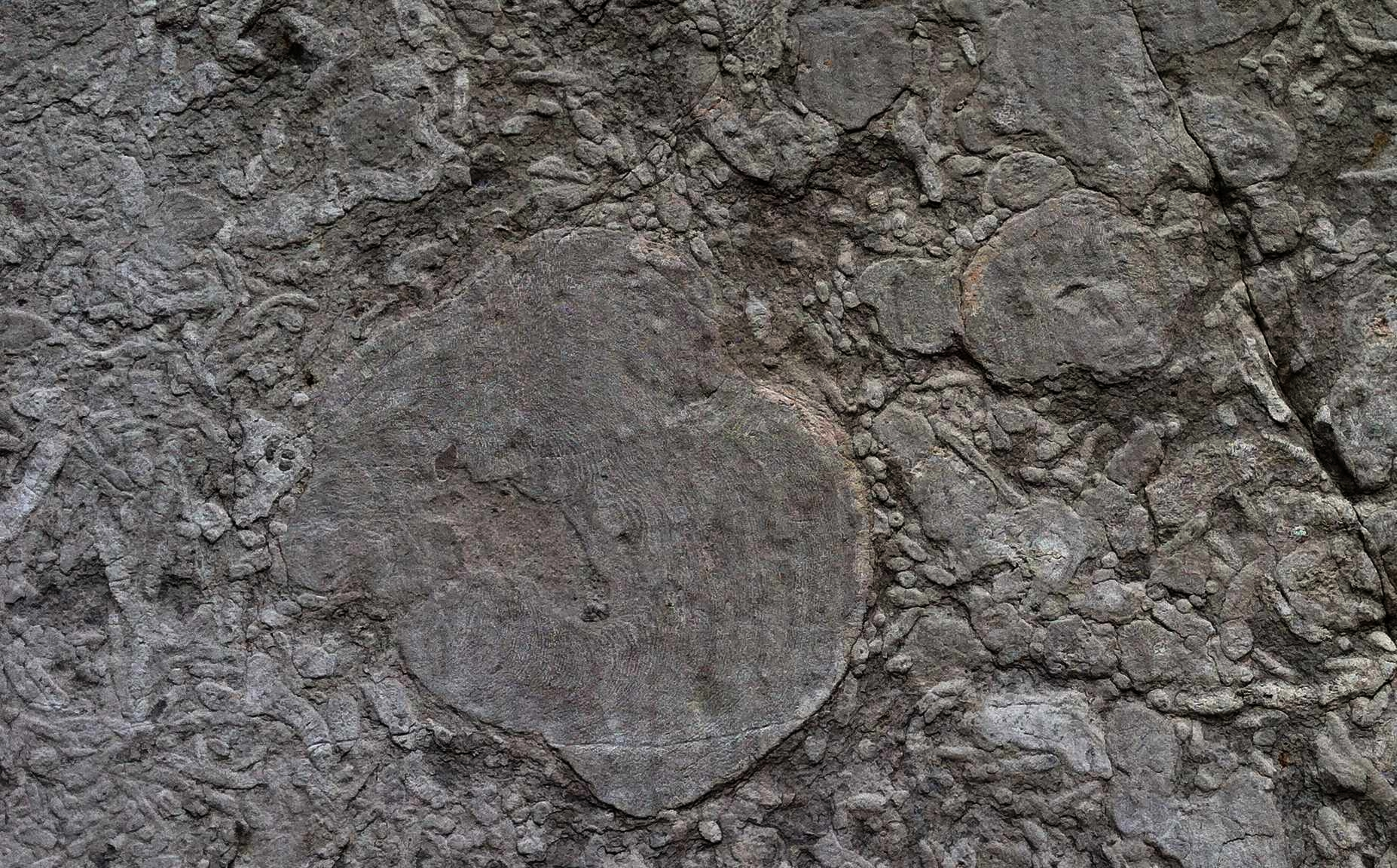 fossil-rich Aachen Bluestone with bulbous stromatoporoids (in the middle)and amphiporoids (Aachen Cathedral, detail)